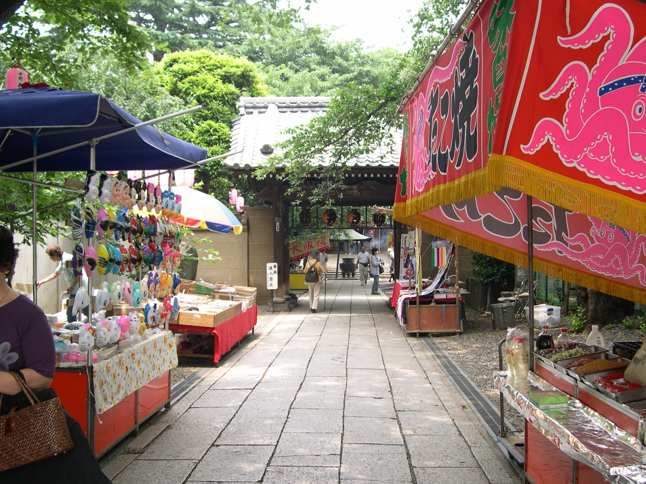 Ennichi of Arai-Yakushi (the Baisyoin temple), Nakano, Tokyo, Japan.